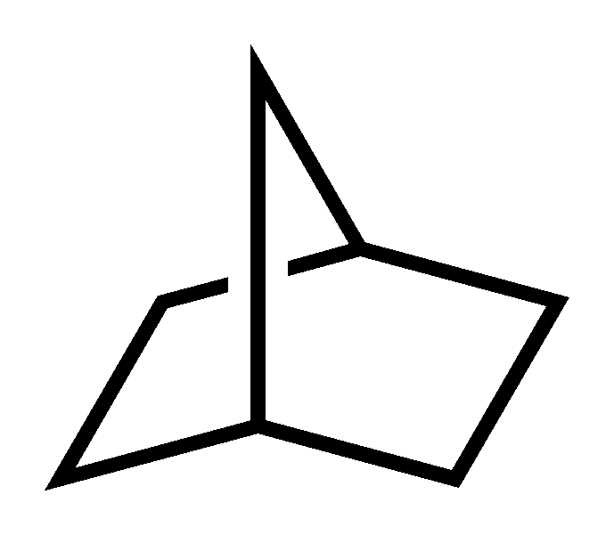 Skeletal formula of norbornane